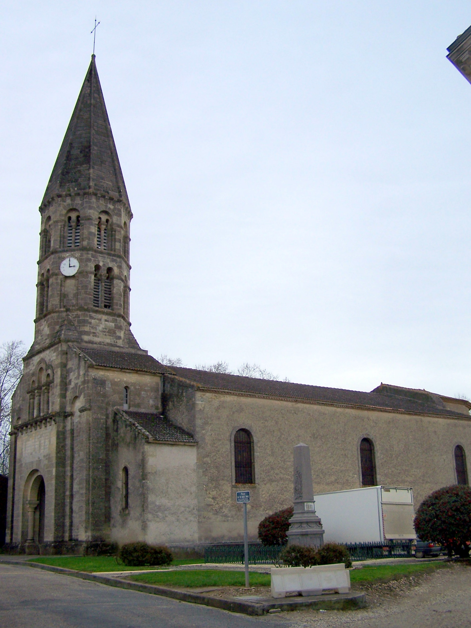 Church of Hure (Gironde, France)